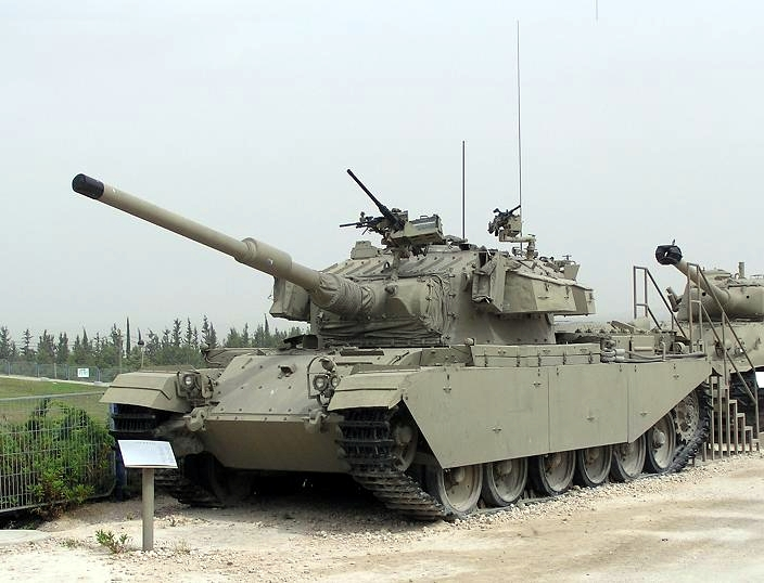 Improved Centurion tank in the Israeli Armored Corps museum in Latrun